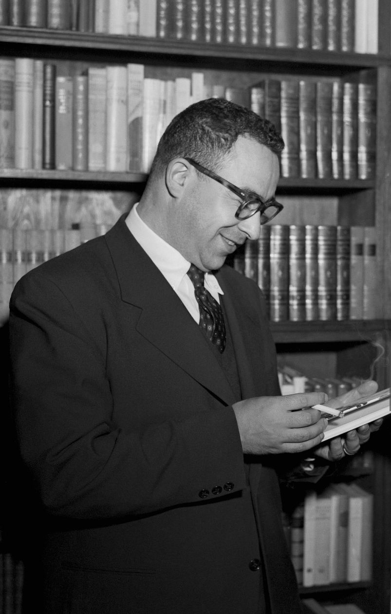 Photograph of the American writer Art Buchwald (1925–2007) during his visit to Finland